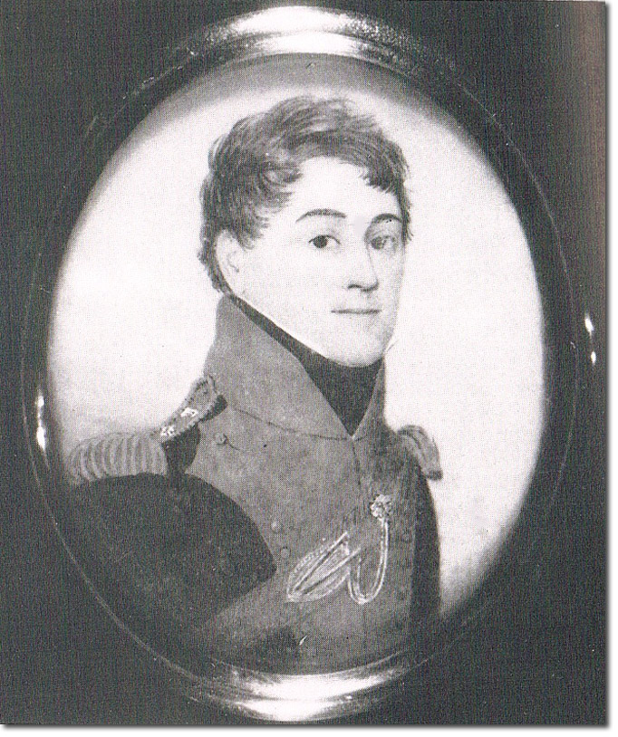 Thomas Hawker, Colonel of the 20th Light Dragoons painted in 1812-13